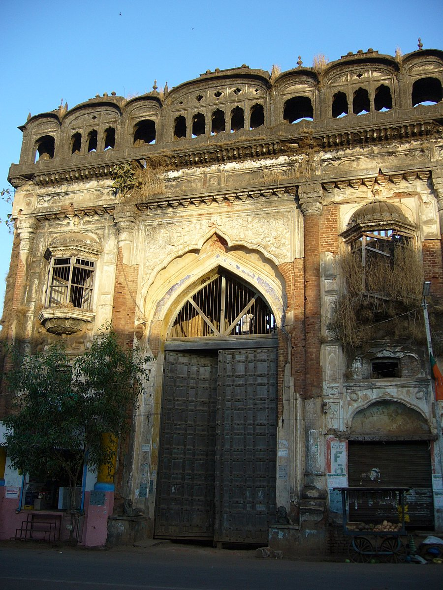 jeypore palace